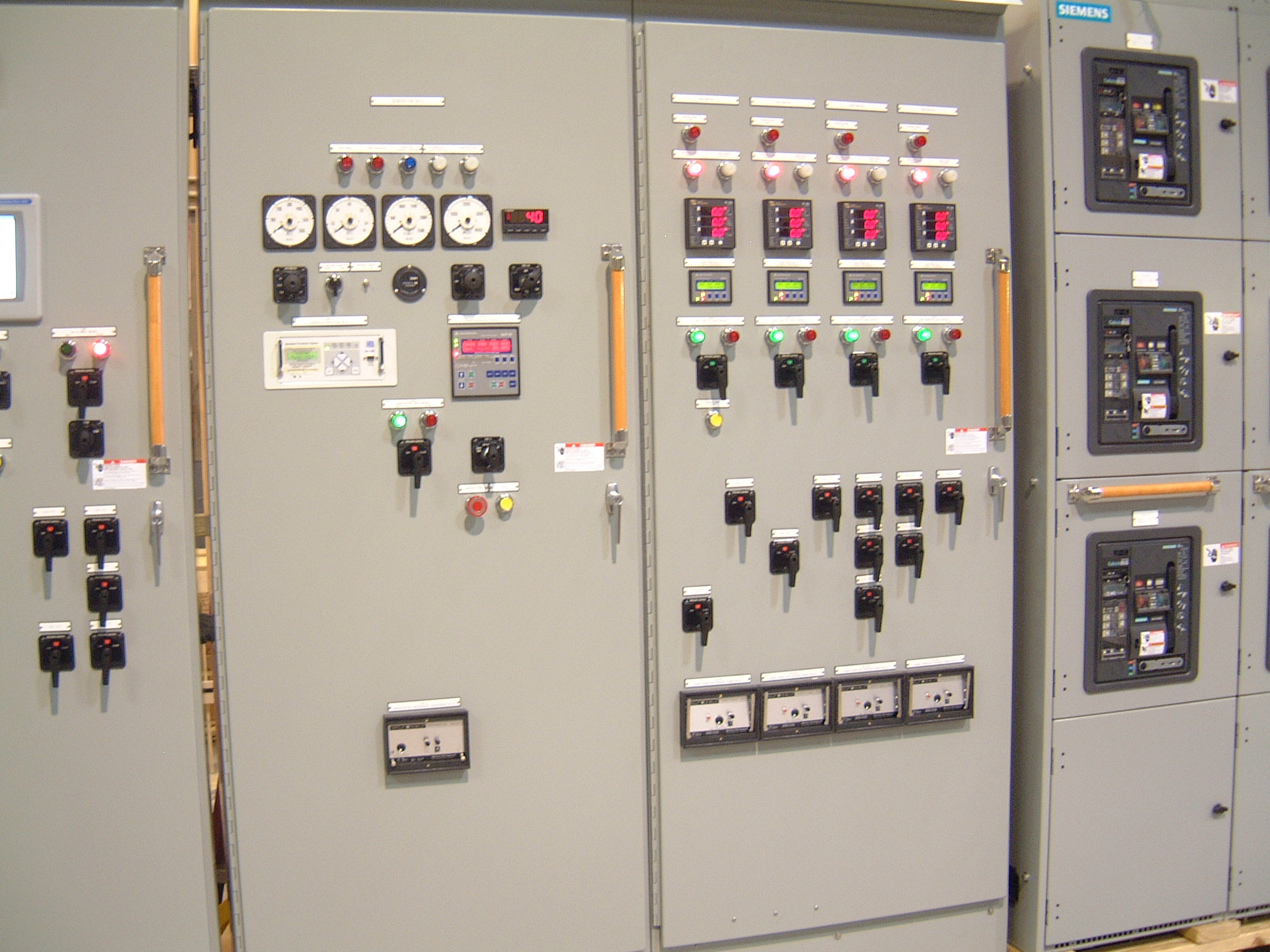 Industrial Switchgear taken at manufacturer, to provide a picture of switchgear (as requested).